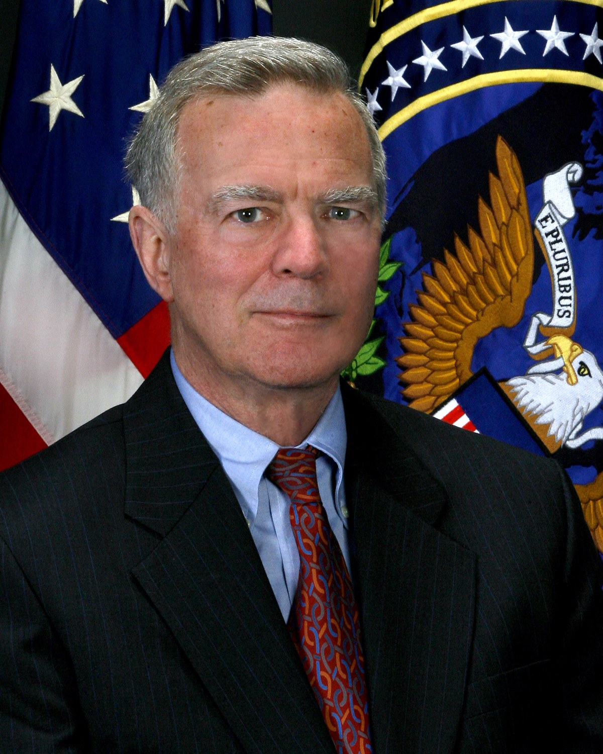 Donald Kerr, Principal Deputy Director of National Intelligence of the Unites States.